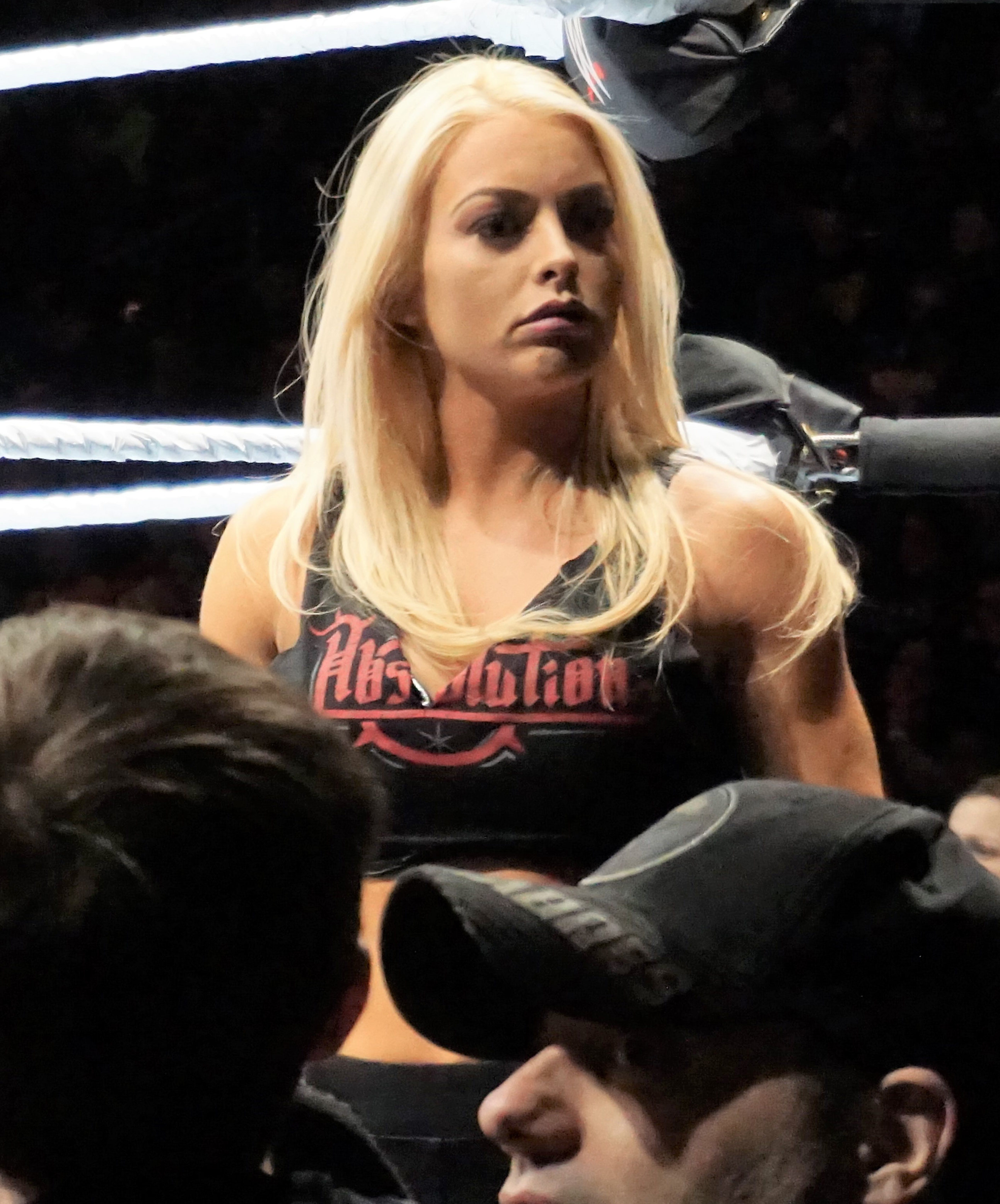 Rose at the WWE live show in March 2018.